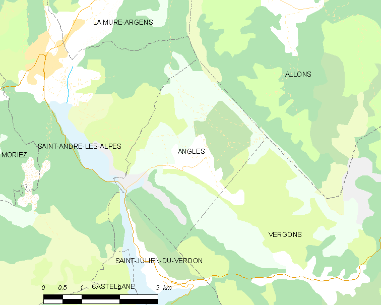 Map commune FR insee code 04007.png Légende